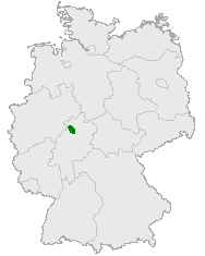 The Kellerwald range location in Germany (in dark green)